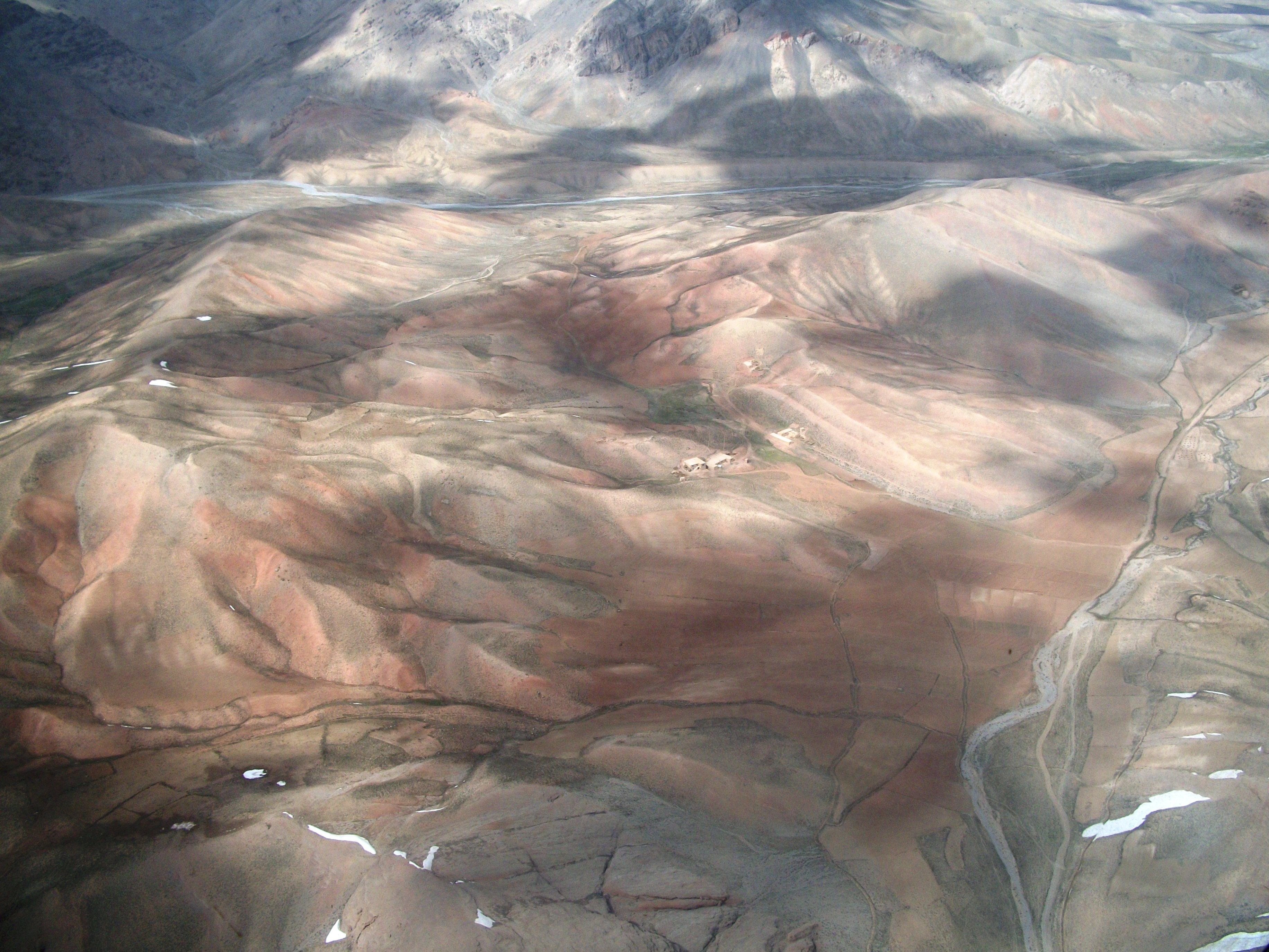 The Ajeristan District of Ghazni province, Afghanistan as seen from a UH 60 Blackhawk, while enroute back from a resupply mission to an Afghan national police combat outpost, April 19. The mission was supported by the Security Force element of the Texas Agribusiness Development team based at Forward Operating Base Ghazni. (U.S. Photo by Army Sgt 1st Class Ross Dobelbower)